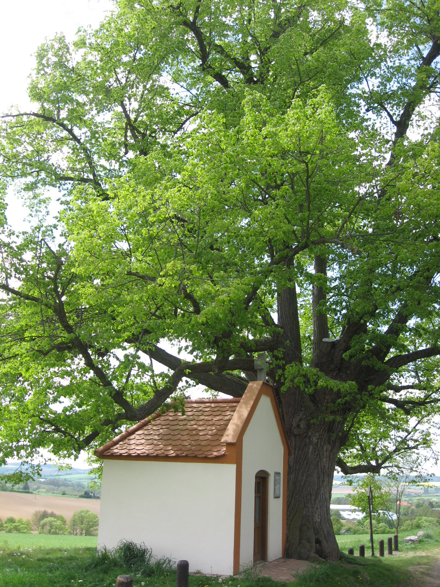 Tilia cordata under the Ticholovec hill by Příchovice, Plzeň-South District, Czech Republic.